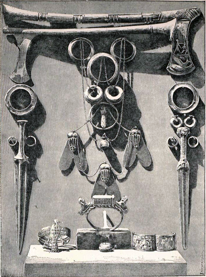 The Jewels and Weapons of Pharaoe Ahmose I